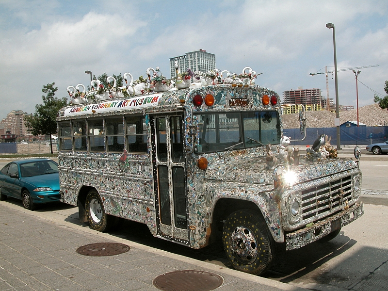 American Visionary Art Museum, Baltimore, USA